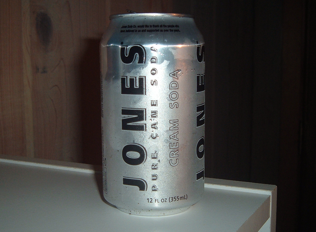 A can of Jones Cream Soda